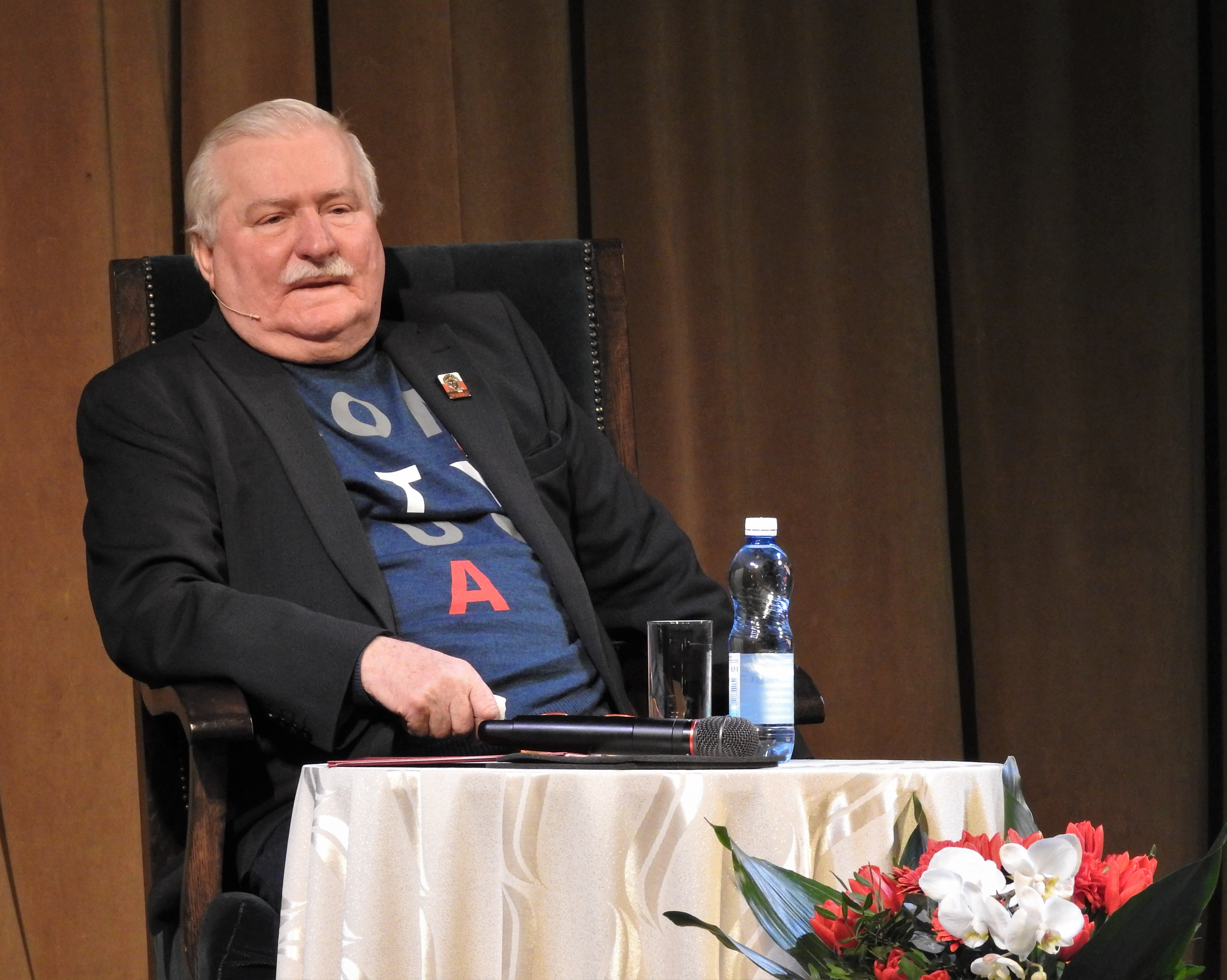 Lech Wałęsa, meeting at the Provincial Culture Center in Kielce, 22/02/2019.